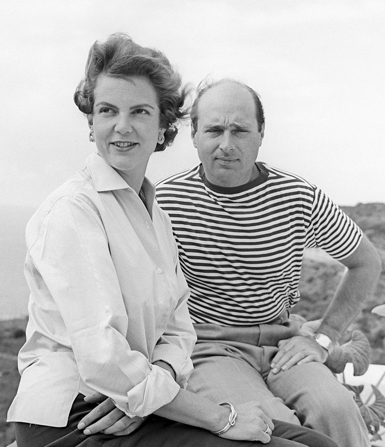 Italian Princess Maria Pia of Savoy and her husband the Prince Alexander Karadordevic of Yugoslavia looking at the panorama seated on the terrace of their villa by the sea. 1958